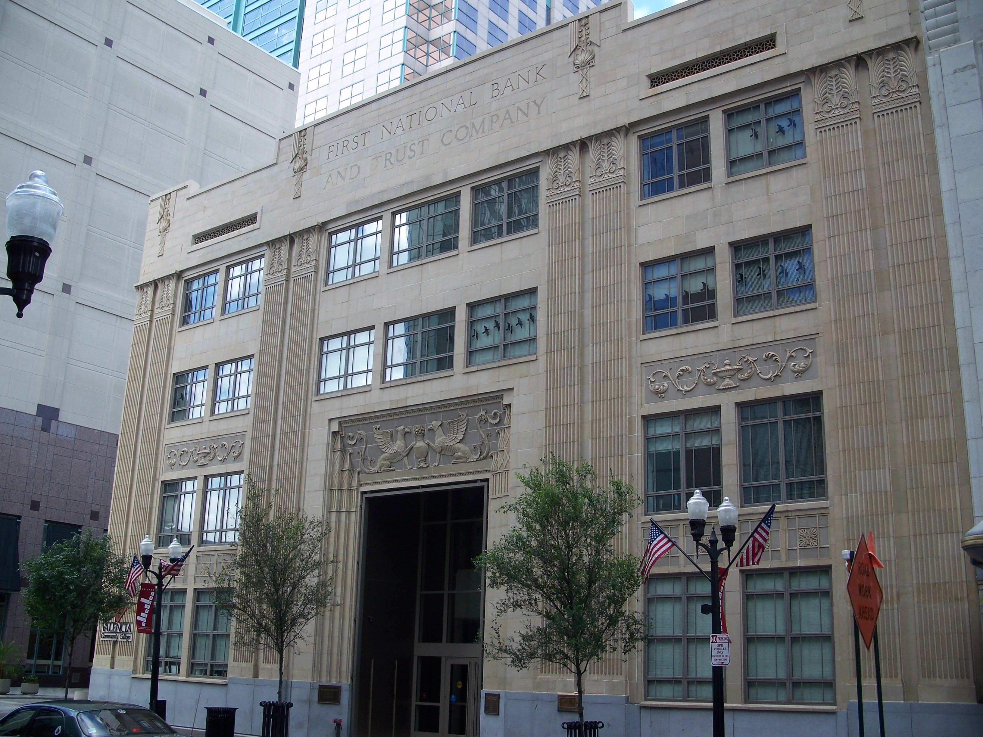 Old First National Bank and Trust Company building, in downtown Orlando, Florida.